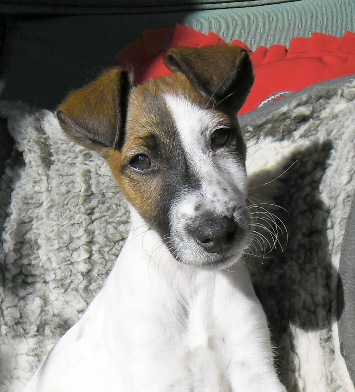 Fiszka – 8 weeks old Smooth Fox Terrier puppy